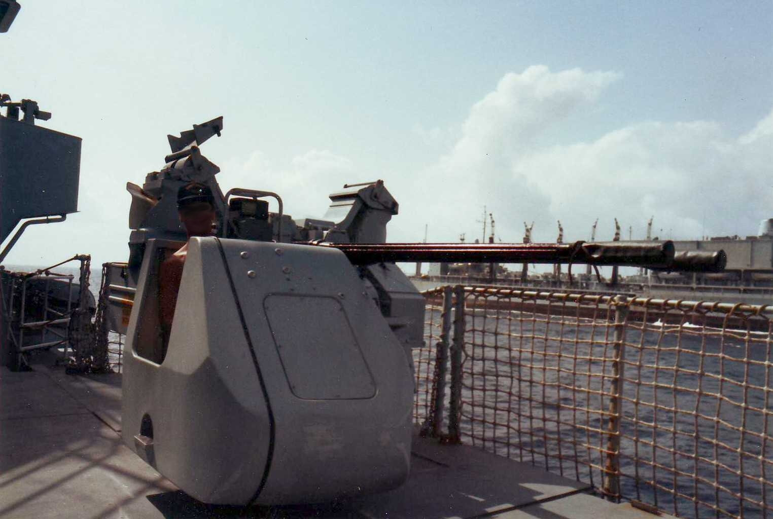 Twin 30 mm Oerlikon cannons on Royal Navy Type 42 destroyer HMS Cardiff (D108), after being recently fitted in late 1982. (add the crewman's face is intentionally blurred)